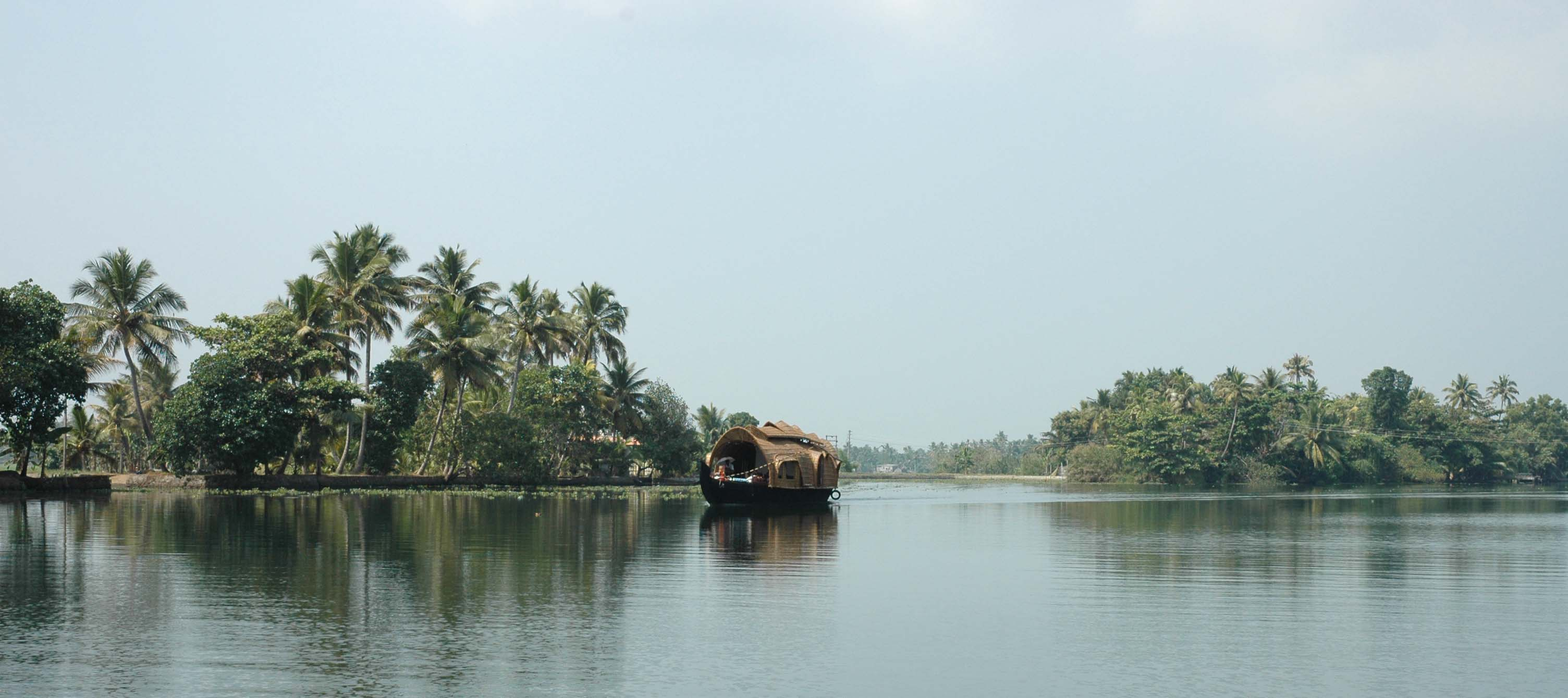 Houseboat near Alleppey, Kerala, India